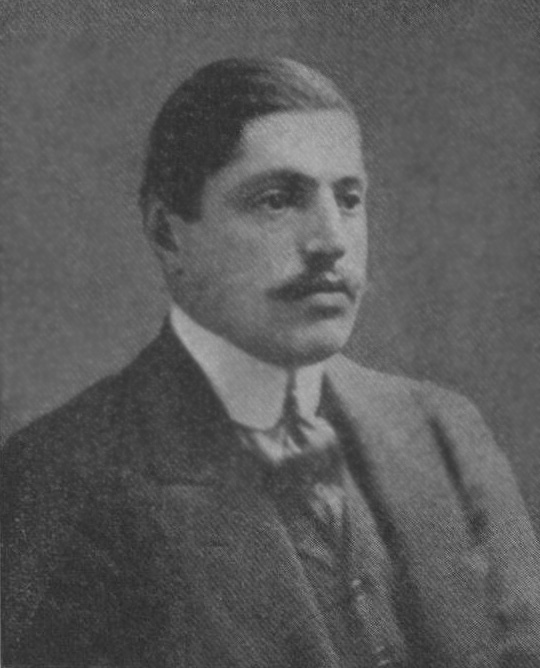 Lord Ninian Crichton-Stuart (1883-1915) in a photograph published following his election as an MP in 1910.